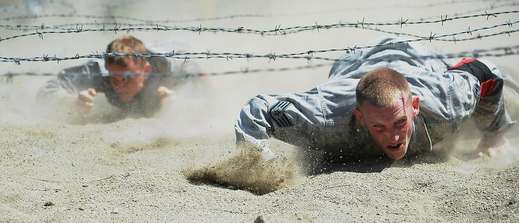 Staff Sgt. Stephen Barber and Senior Airman Tim Dent low crawl through the combat endurance event July 28, 2011, during Air Mobility Rodeo 2011 at Joint Base Lewis-McChord, Wash. Barber and Dent are assigned to the 621st Contingency Respose Wing.